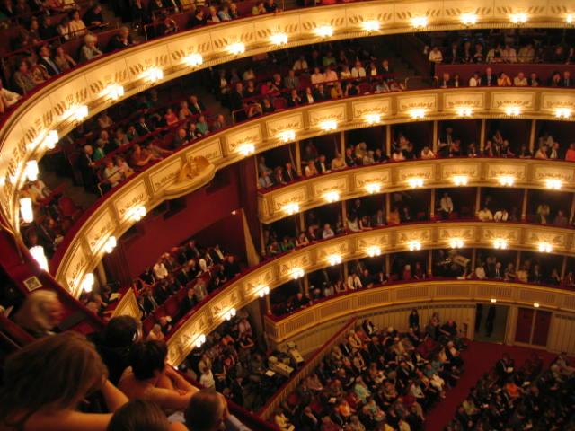 Interior of the Vienna State Opera. Taken 11 June 2006.